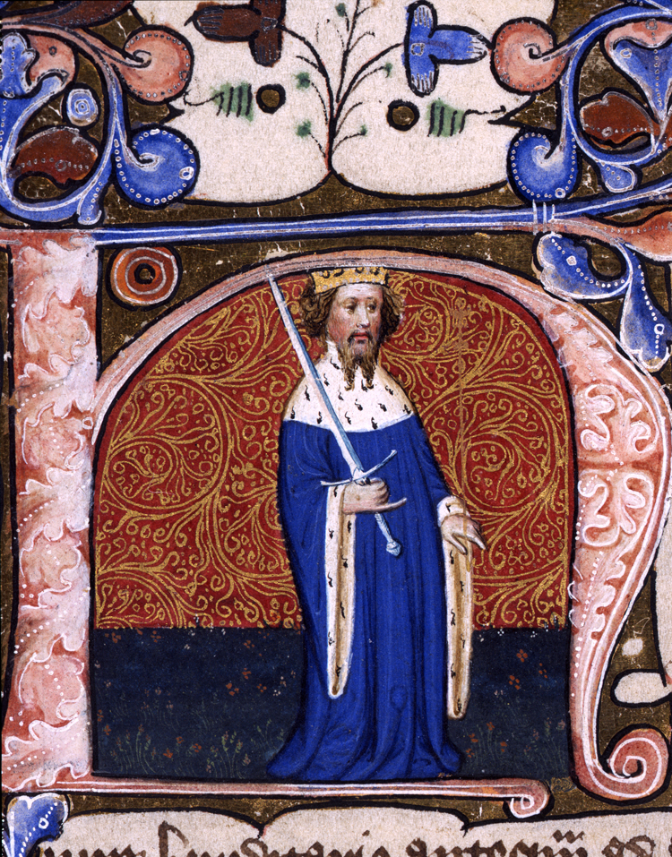 Description: Illuminated initial letter showing Henry IV from the records of the Duchy of Lancaster. Before his usurpation of Richard II in 1399, Henry was Duke of Lancaster. Date: c.1402 Our Catalogue Reference: DL 42/1 This image is from the collections of The National Archives. Feel free to share it within the spirit of the Commons. For high quality reproductions of any item from our collection please contact our image library.